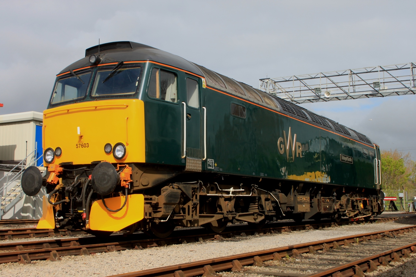 An open day at St Phillip's Marsh depot in Bristol included a rare visit of a Great Western Railway class 57 diesel. 57603 Tintagel Castle and its classmates are usually only found working the Night Riviera between London and Penzance.